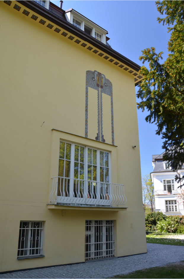 Vila Kraus, Na Zátorce 3/289, Praha 6–Bubeneč, geometrical Art Nouveau